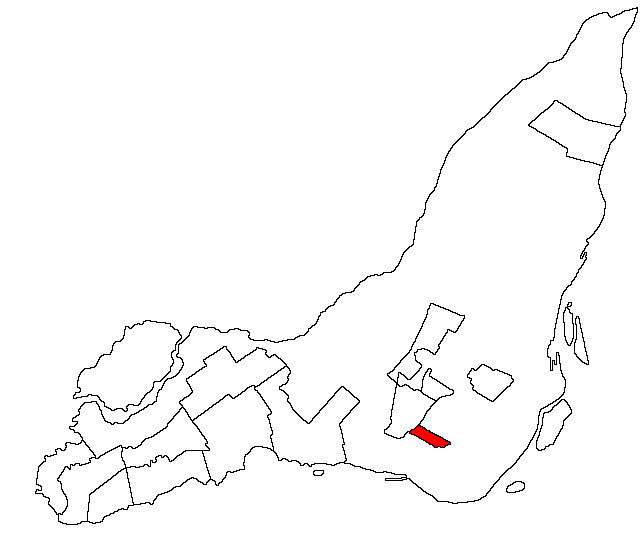 Map of Montréal-Ouest on the Isle of Montreal